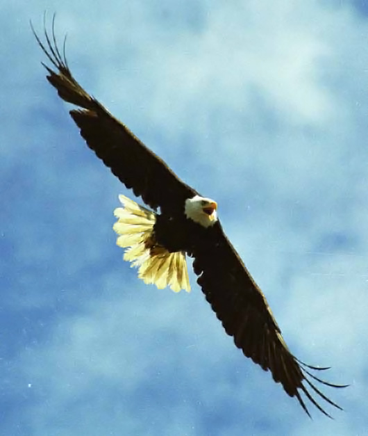 wild bald eagle circles me, calling